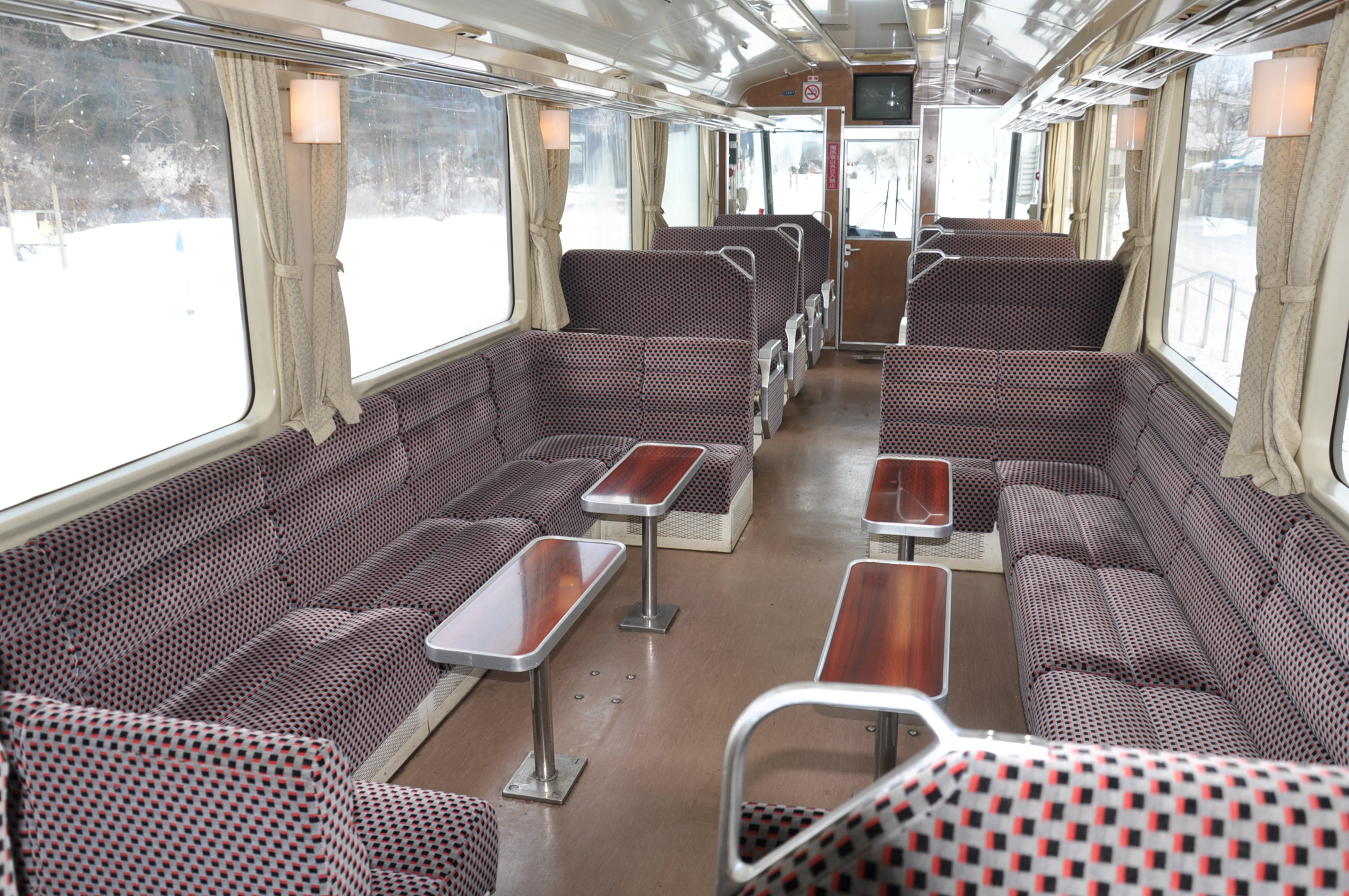 In express "MORIYOSHI" car of "Akita inland running through railway Ltd." that runs in Akita prefecture land in Japan.